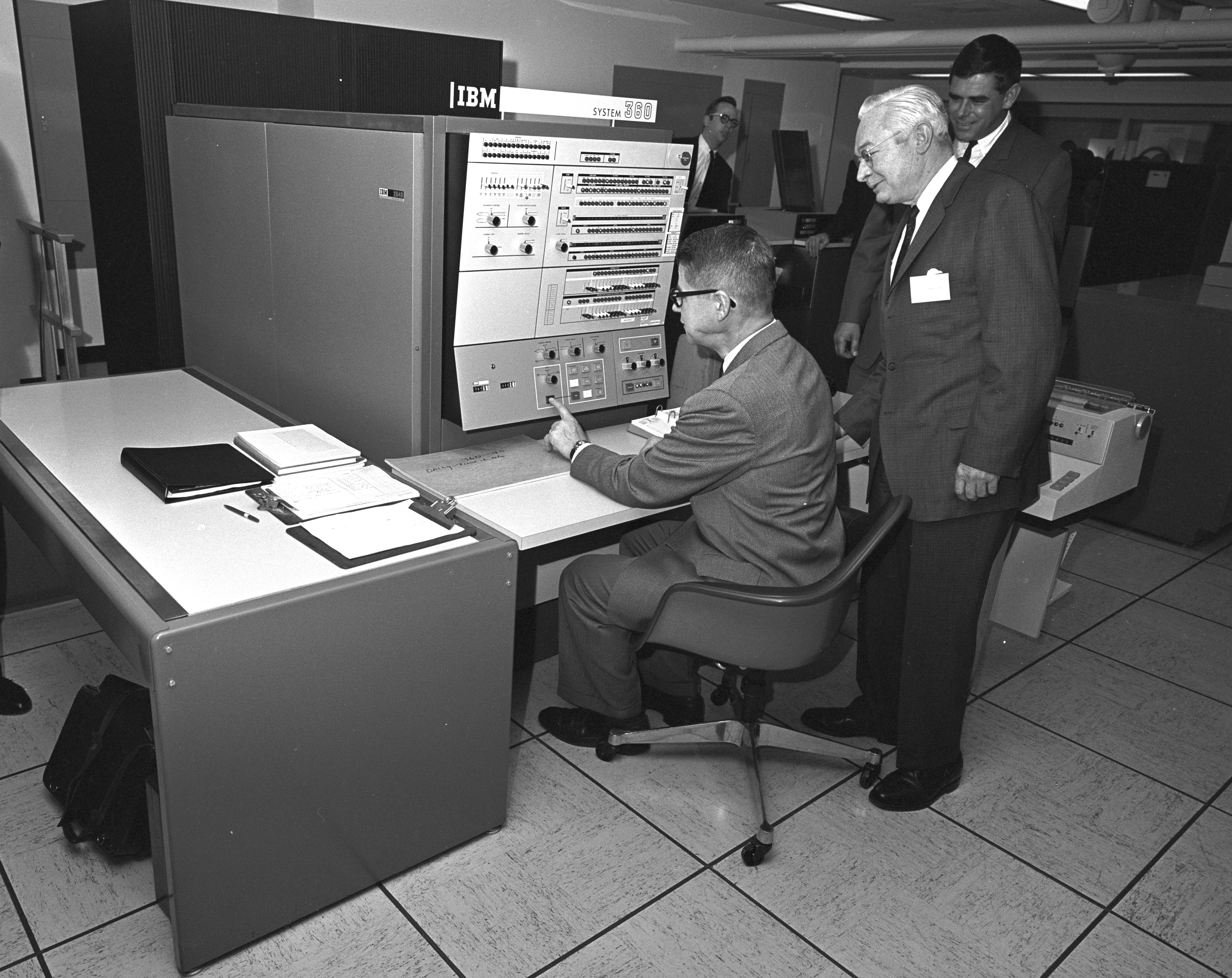 U.S. Department of Agriculture (USDA) Statistical Reporting Service (SRS) Administrator Harry Trelogan looks on as Agriculture Secretary Orville Freeman tests out some of the functions of the IBM 360 computer. The Washington Data Processing Center officially opened on April 1, 1966 and uses the new IBM 360 computer to process data for all U.S. Department of Agriculture (USDA) agency programs. Photo courtesy of the National Archives and Records Administration. Note: This is a Model 40.